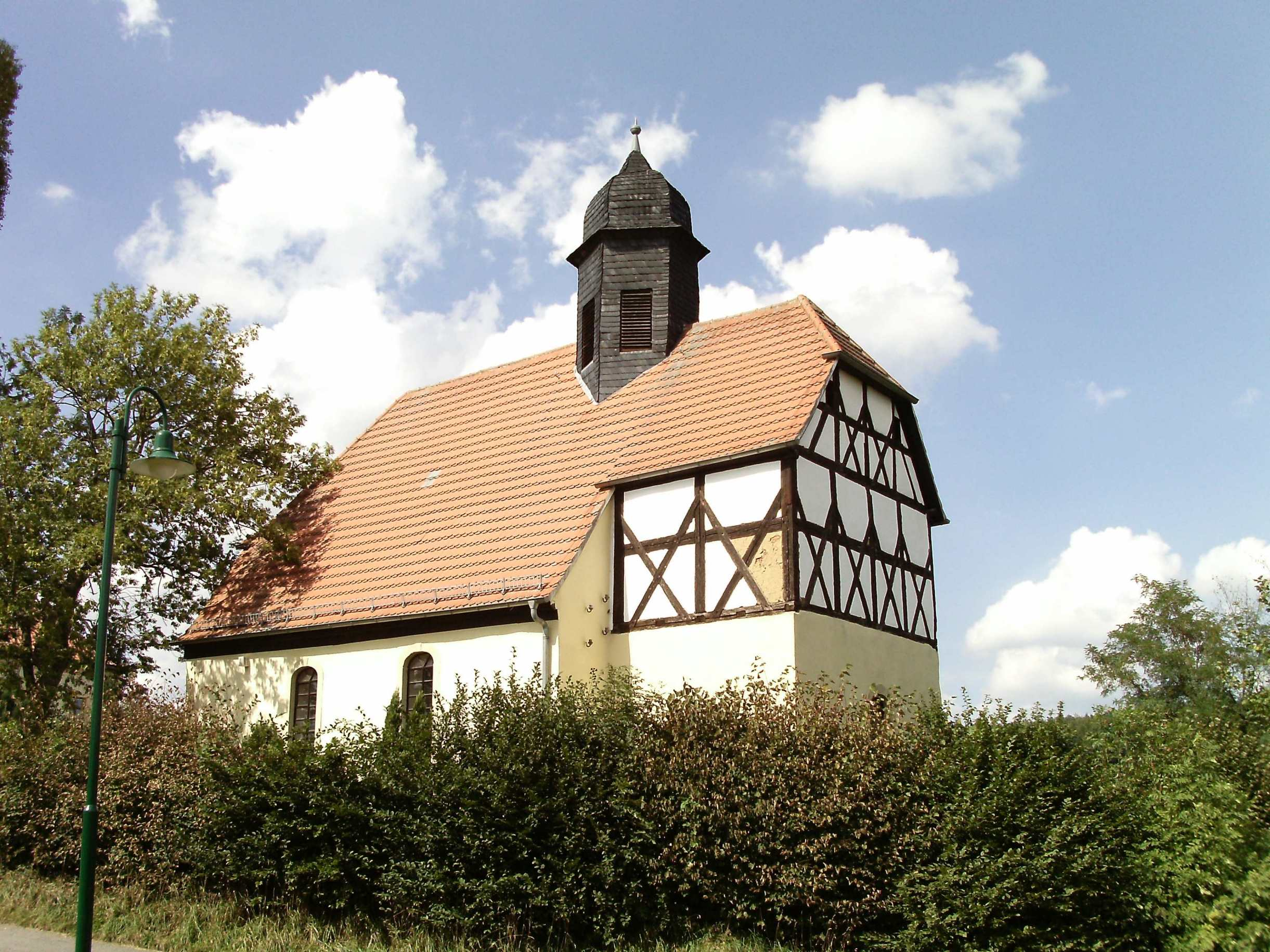 Church of the village of Birkhausen (Harth-Pöllnitz, Greiz district, Thuringia)